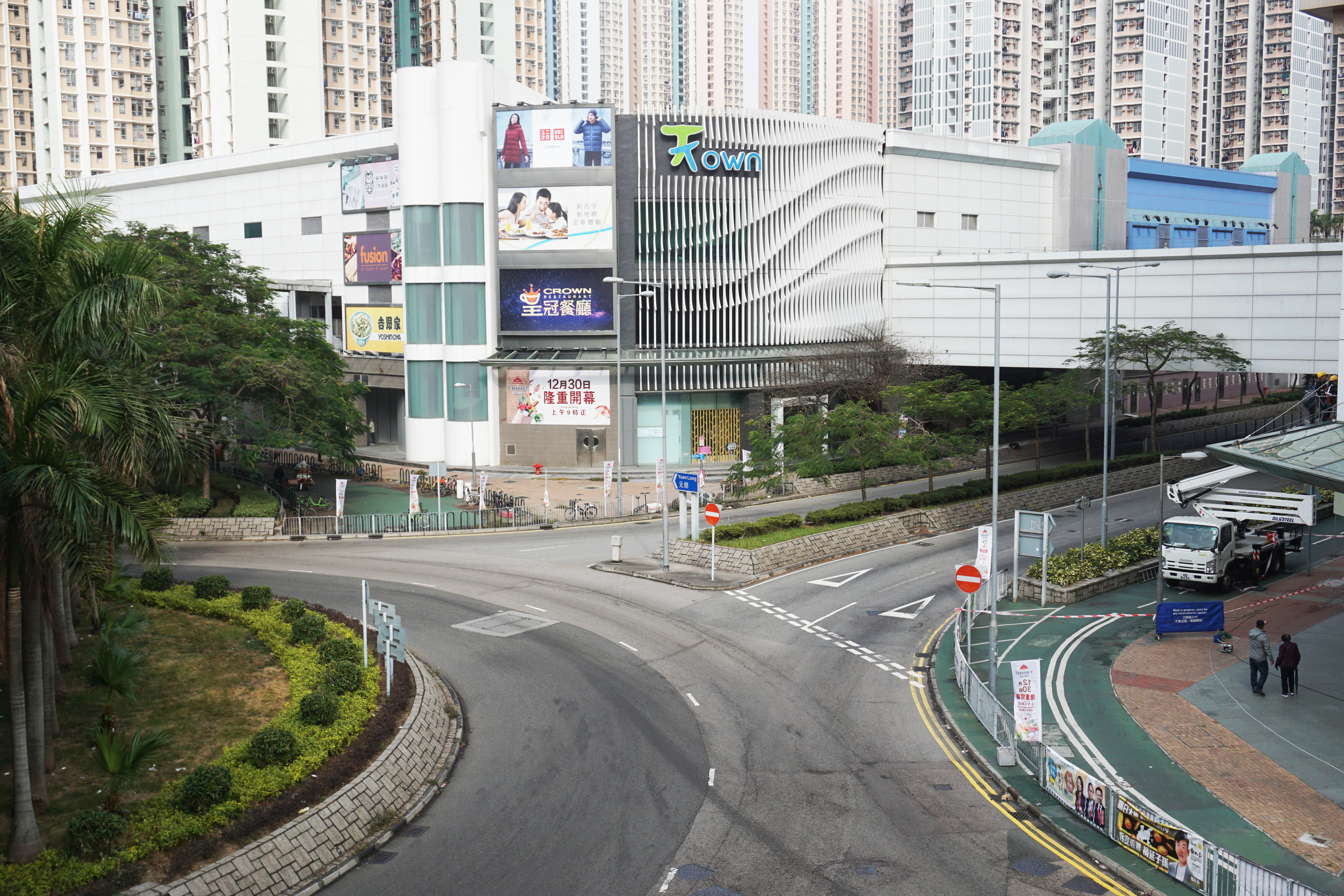 T Town in Tin Shui Wai, Hong Kong.